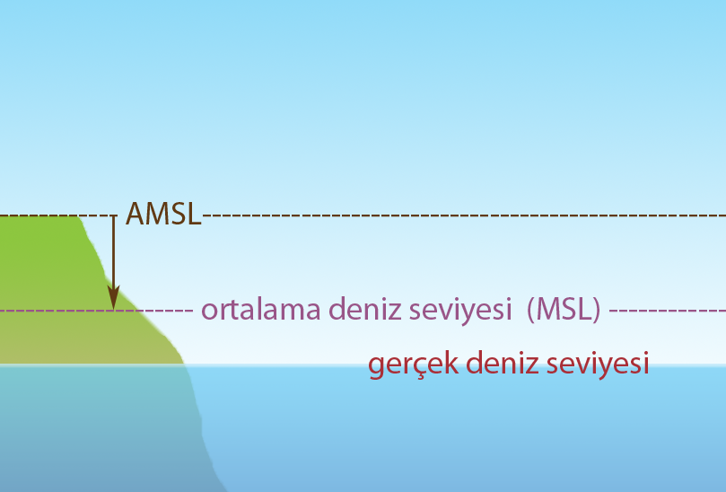 Above mean sea level (AMSL)